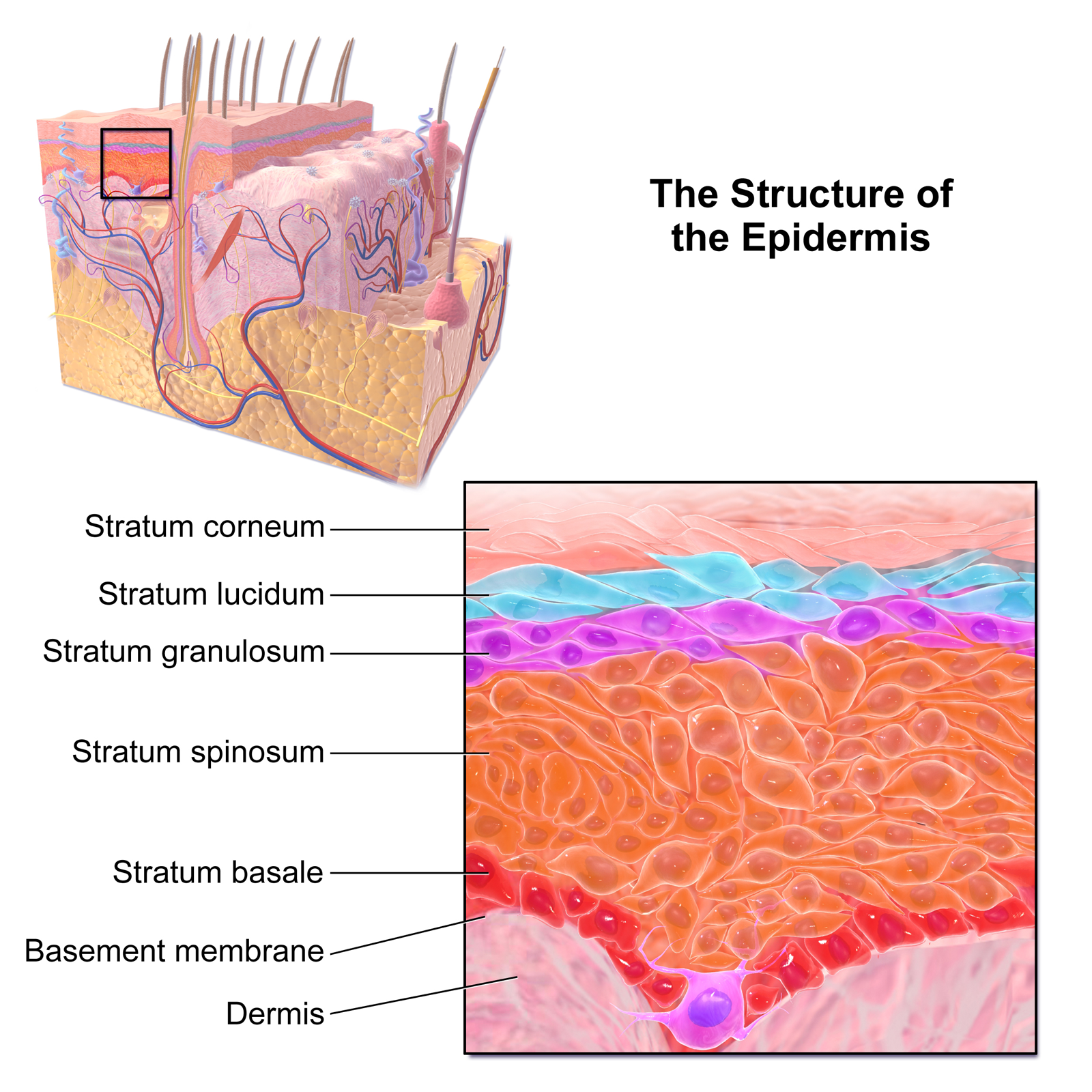 Epidermis. See a full animation of this medical topic.